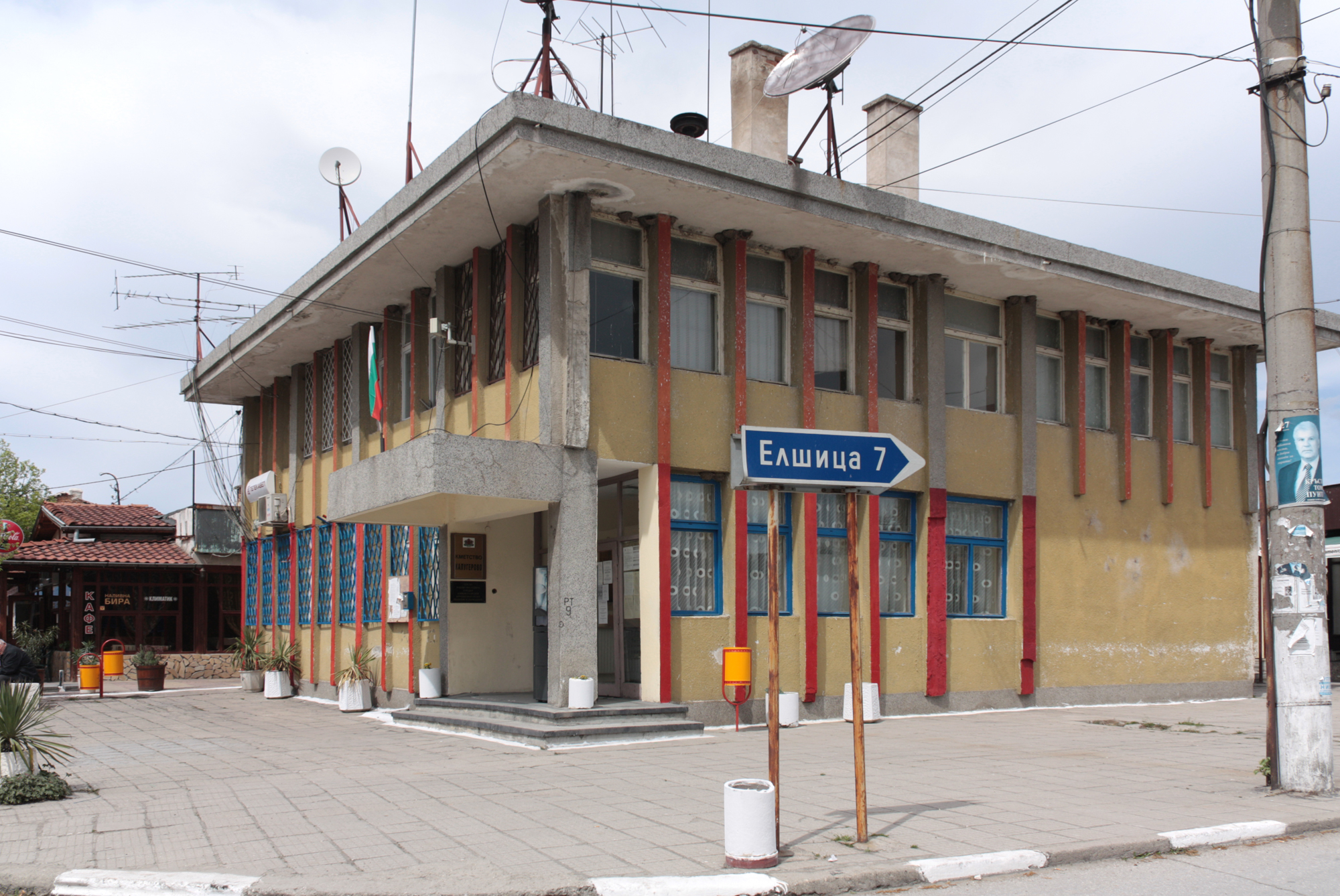 Kalugerovo municipality office